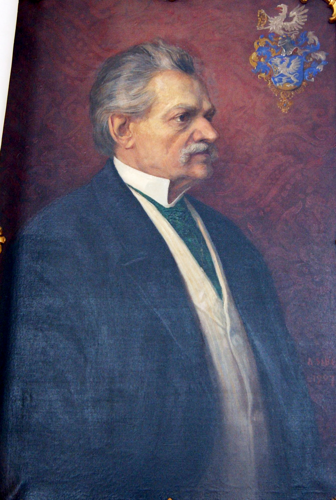 Theodor von Kathrein, head of the Provincial Government of Tyrol.